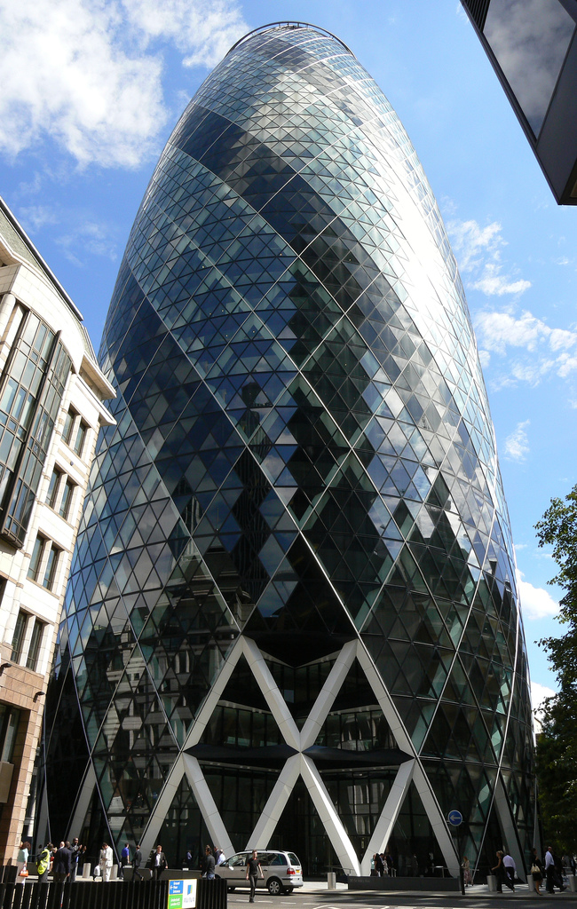 Cigar shaped Swiss Re Tower building london england architect sir Norman Foster